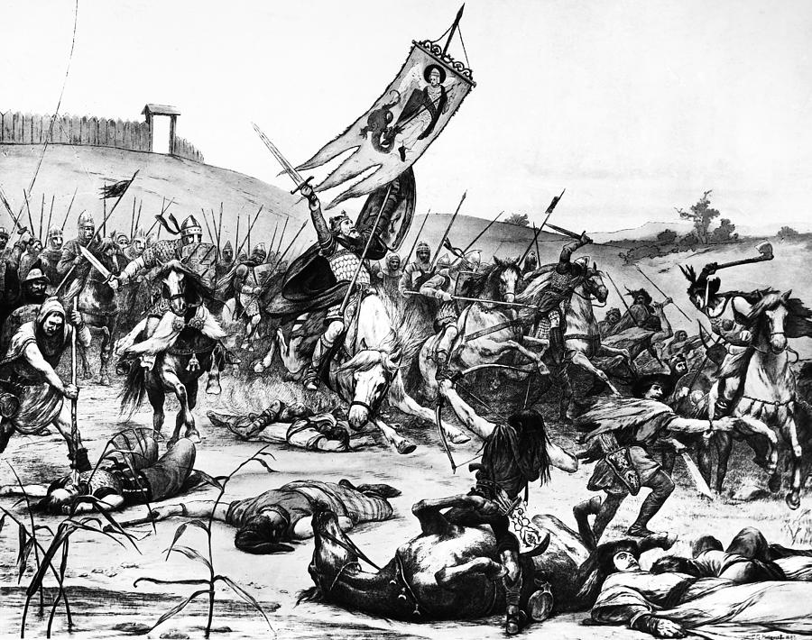 Battle of Lechfeld lithograph